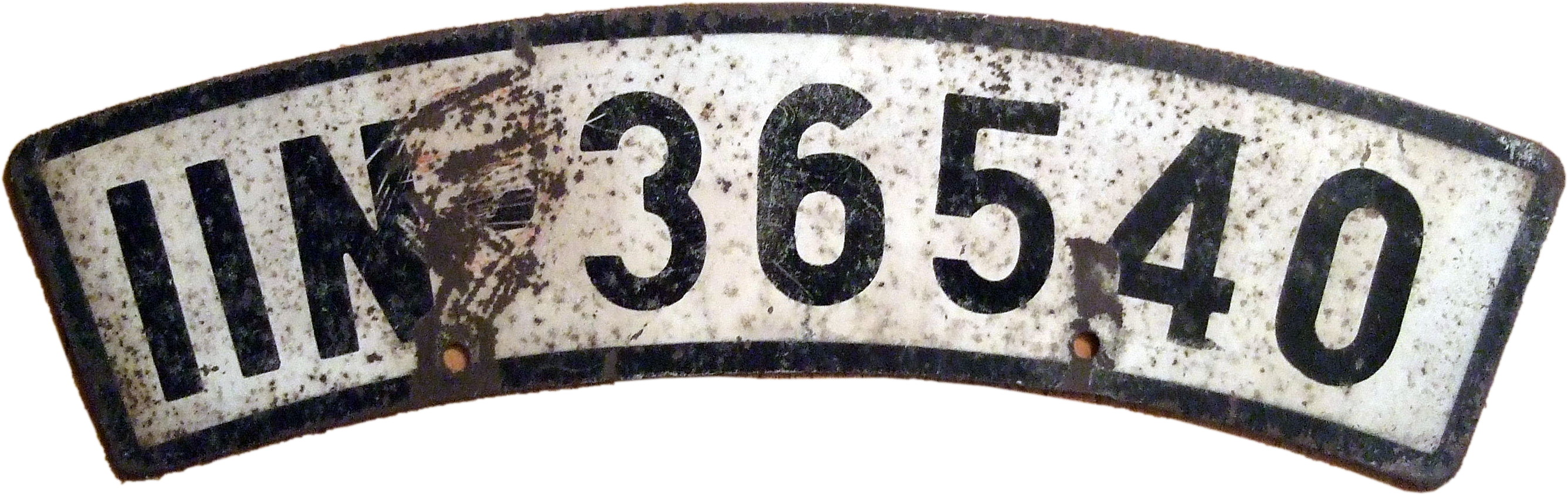 Pre 1945, Third Reich, Nazi German motorcycle plate from Nuremburg. This mounted on the front fender was printed on both sides. This side is the poorer side but some traces of the original red Nazi seal can still be seen where the plate has been scraped to the right of the letter "N" It is quite likely this plate was used until war's end in 1945 then the Nazi seals were scraped off and the plate may have been continued to be used as the immediate postwar series in Germany were quite similar but bore no seals.